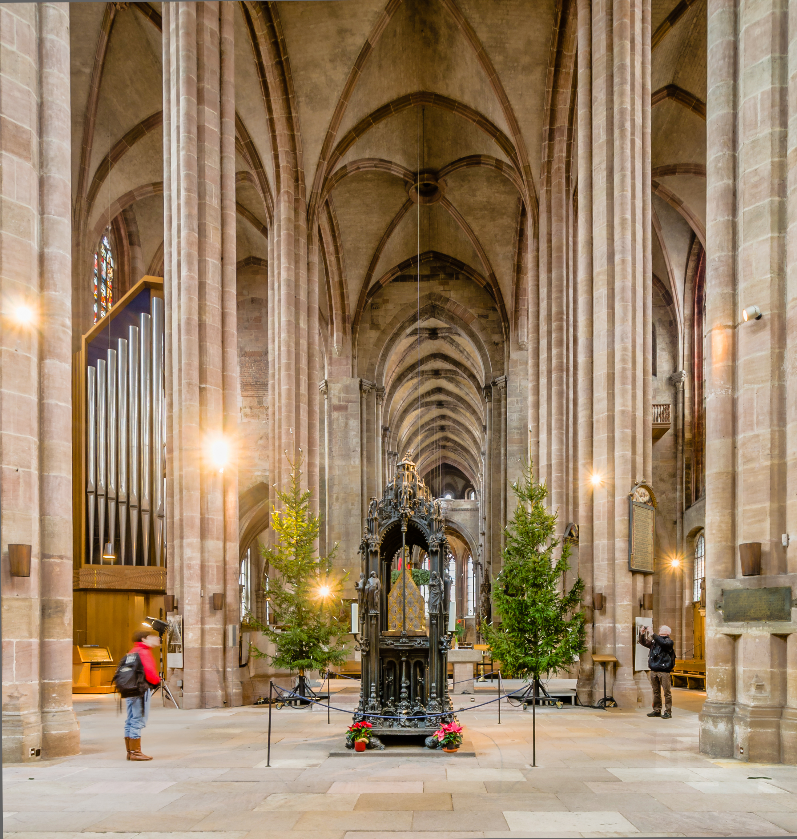 Interior of Sebaldus Church in Nuremberg